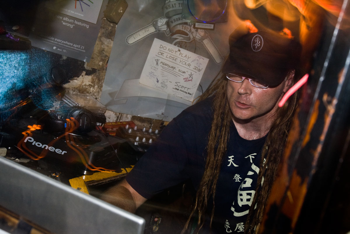 Cevin Key DJing Chicago